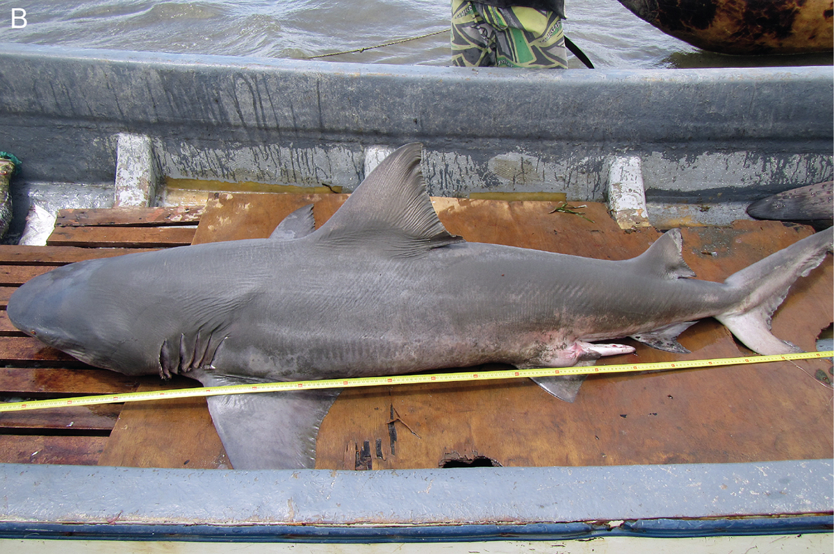 Male speartooth shark (Glyphis glyphis) from the coastal marine waters of the Daru region, Western Province, Papua New Guinea.